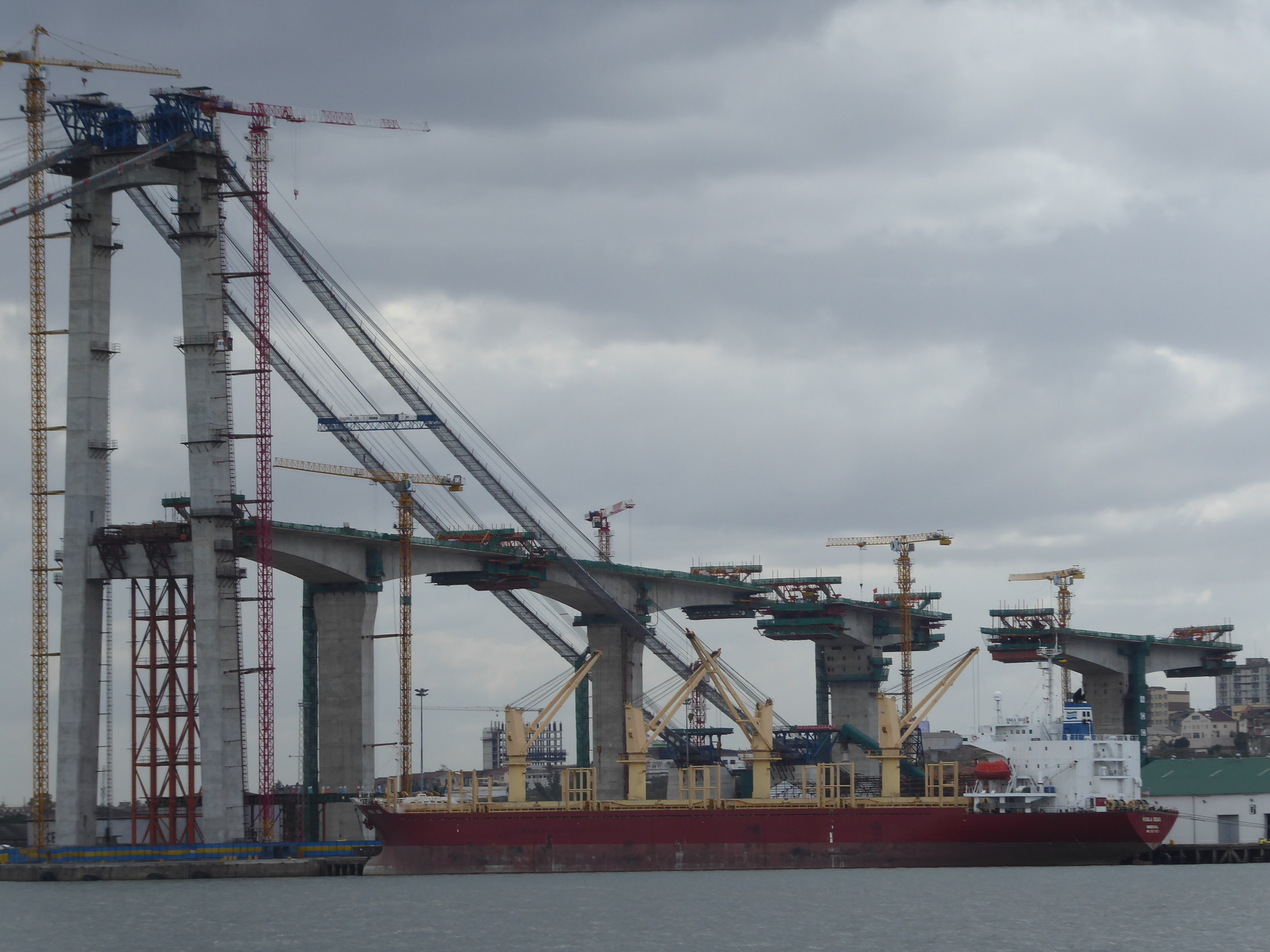 Maputo-Catembe bridge, Maputo, Mozambique